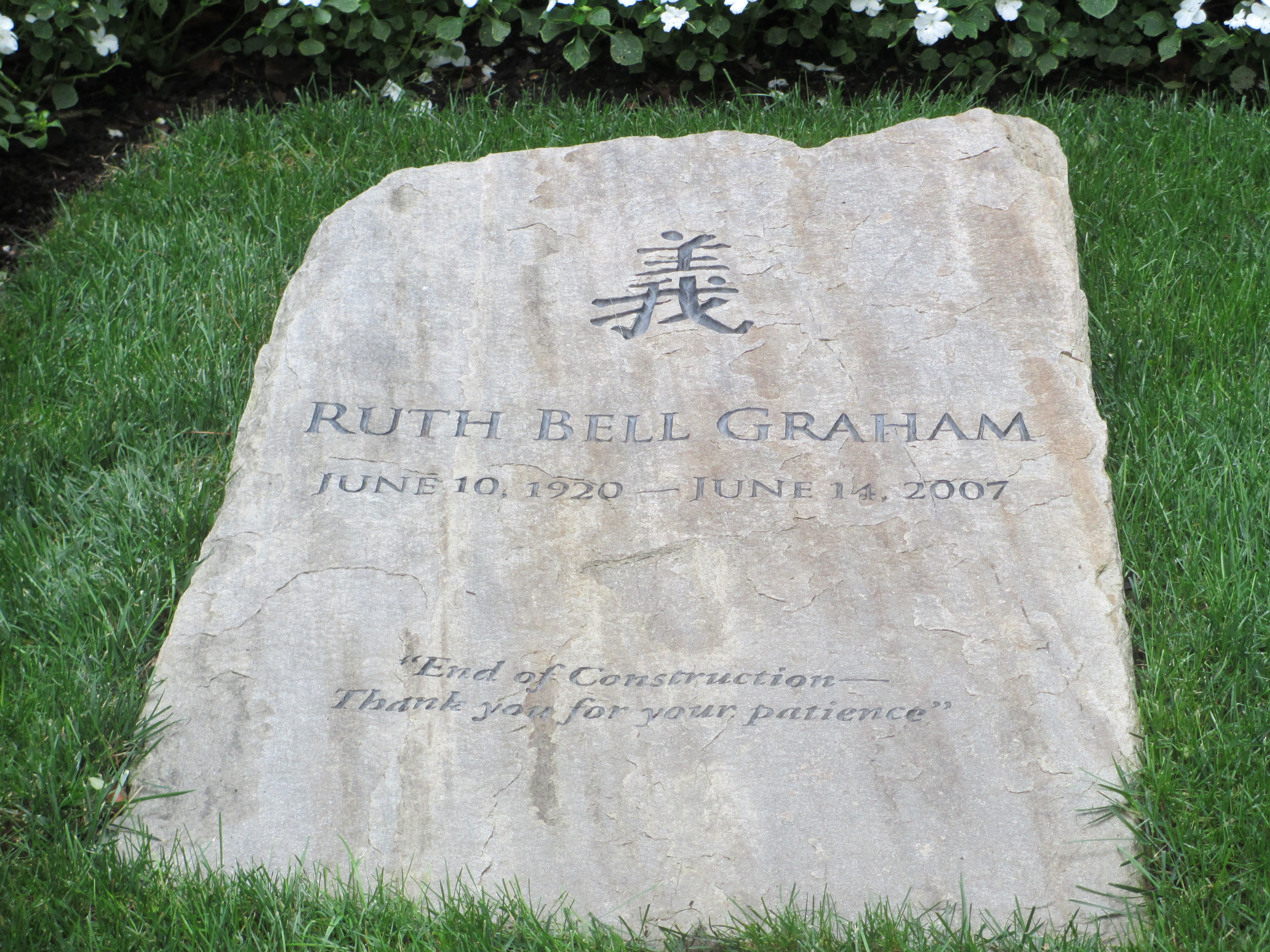 I took photo at Billy Graham Library in Charlotte, NC, with Canon camera.